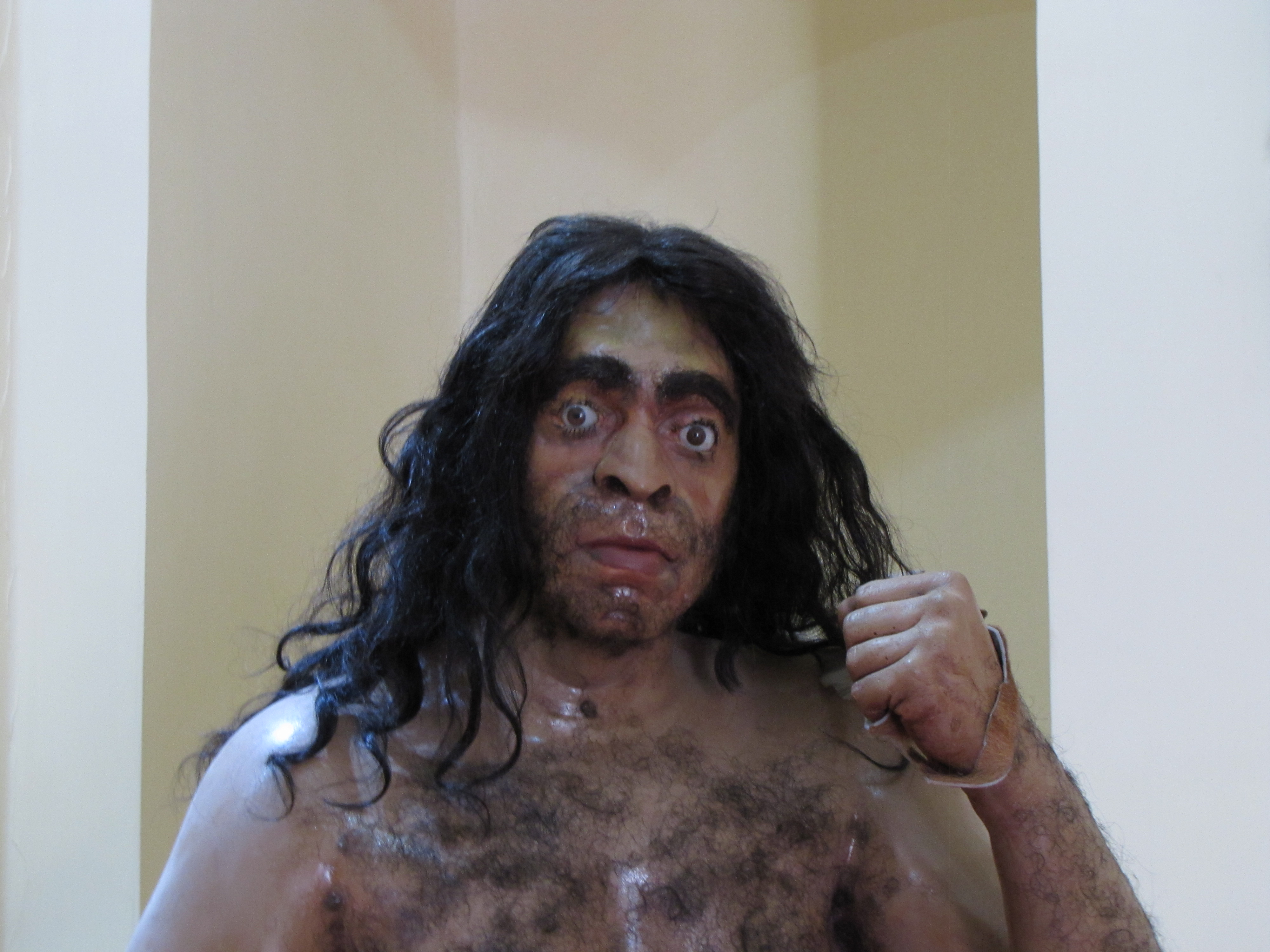 King of the paniabad